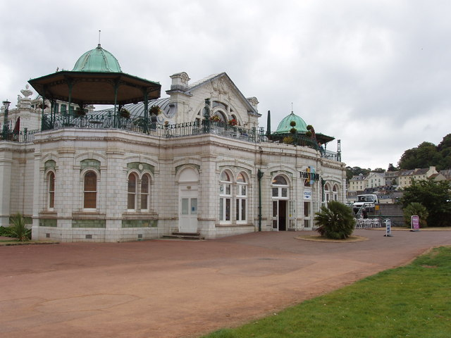 Torquay Pavilion. The Pavilion is now a shopping centre. Its website tells us: "The Torquay Pavilion was opened in 1912 as a ‘Palace of Pleasure’ to attract more visitors to the resort and to create a venue in which to hear music, see plays and meet friends. It is one of the few remaining examples of Victorian seaside architecture, a style dedicated to the late 19th and early 20th-century holidaymakers’ appetite for novelty and entertainment."